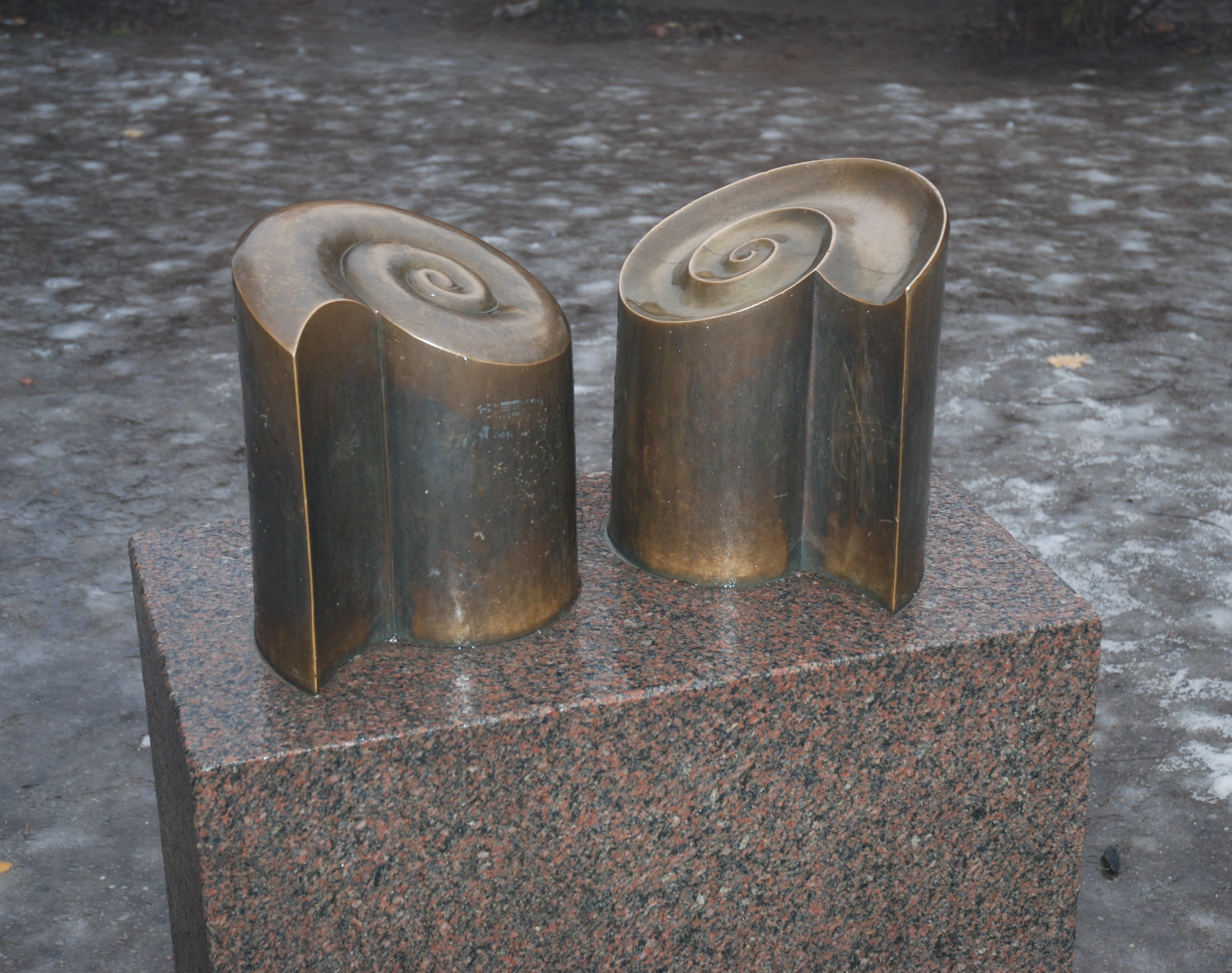 Nils G Stenqvist´s Snails